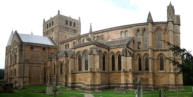 Southwell Minster : Southern façade A panoramic view of the southern side of the magnificent Norman minster of St. Mary in Southwell, Nottinghamshire. A daughter church to the minster of York it was the burial place of several mediæval Archbishops of York, though the only tomb that survives of these prelates is that of Edwin Sandys who died in 1588. NB: The apparent bowing of the roofline of the nave is caused by the distortion of this wide angle view.